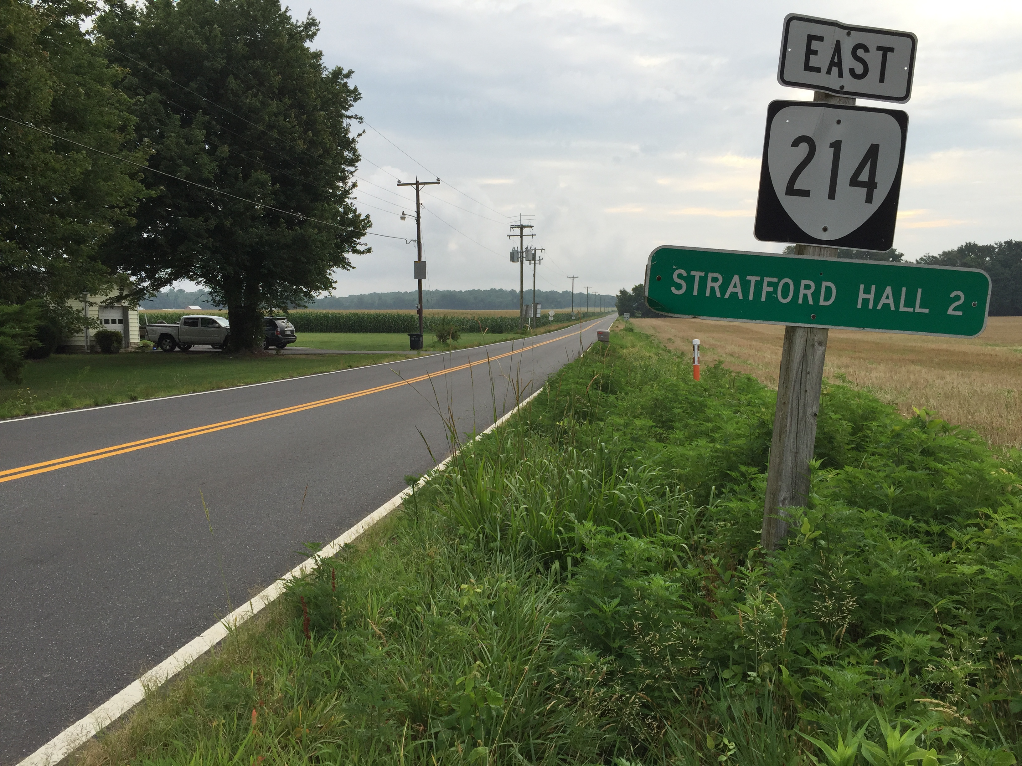 View east along Virginia State Route 214 (Stratford Hall Road) at Virginia State Route 3 (Kings Highway) in Lerty, Westmoreland County, Virginia